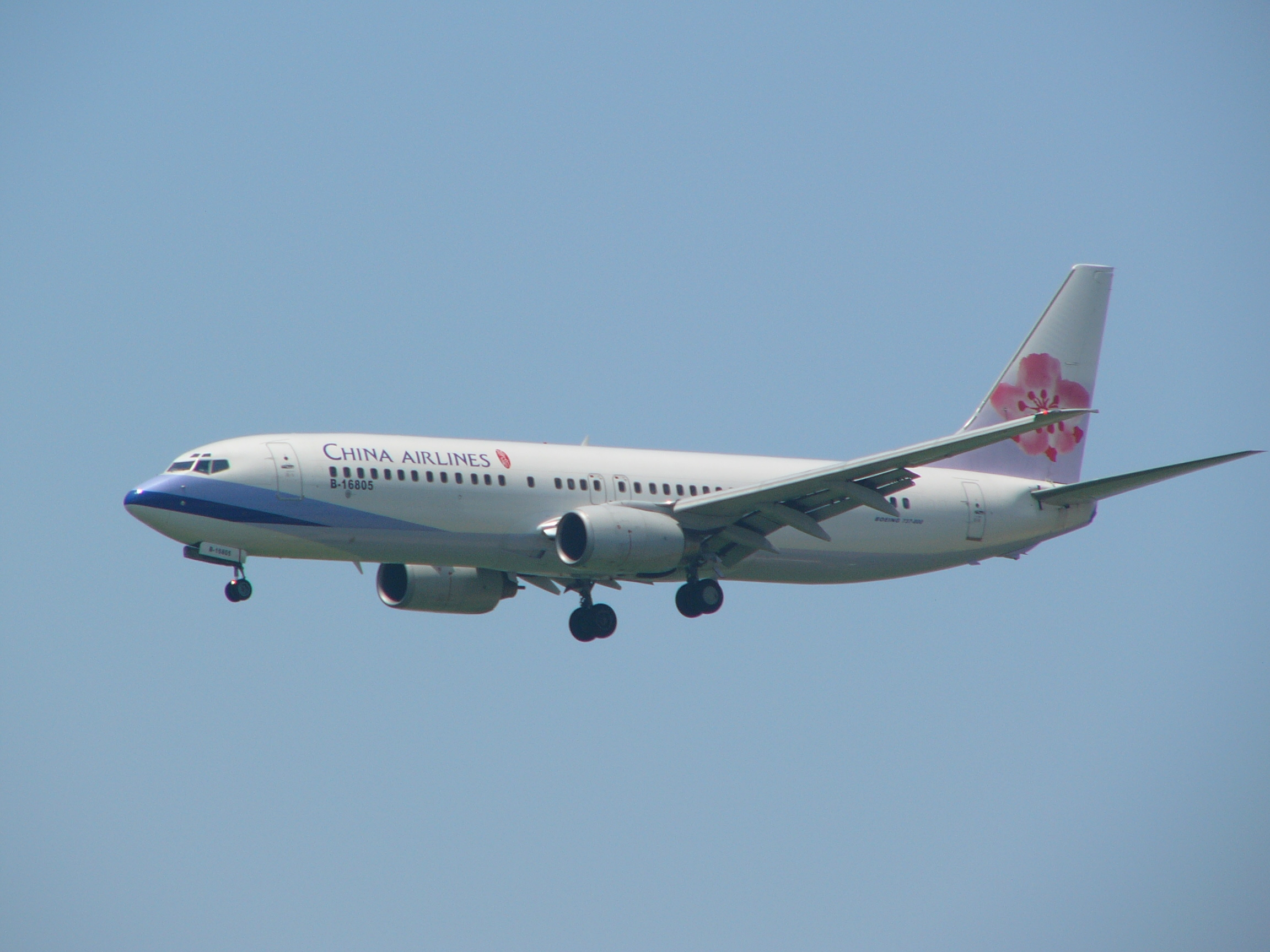 China Airlines B-16805 Boeing737-800 Photo by Ellery Cheng near CKS International Airport of Taiwan in Apr.30th 2005.